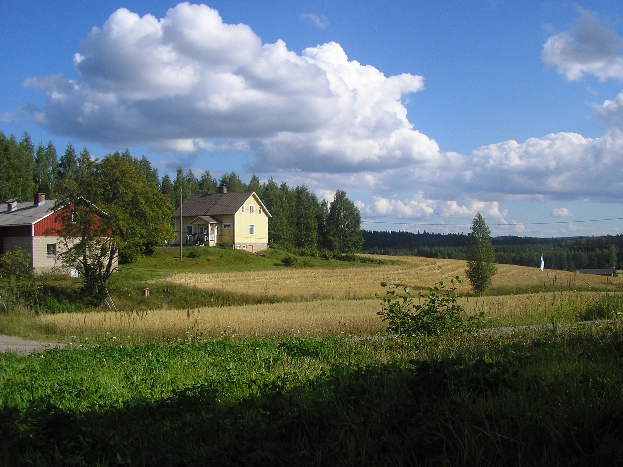 Moksi-Leustu stage during Rally Finland 2006.